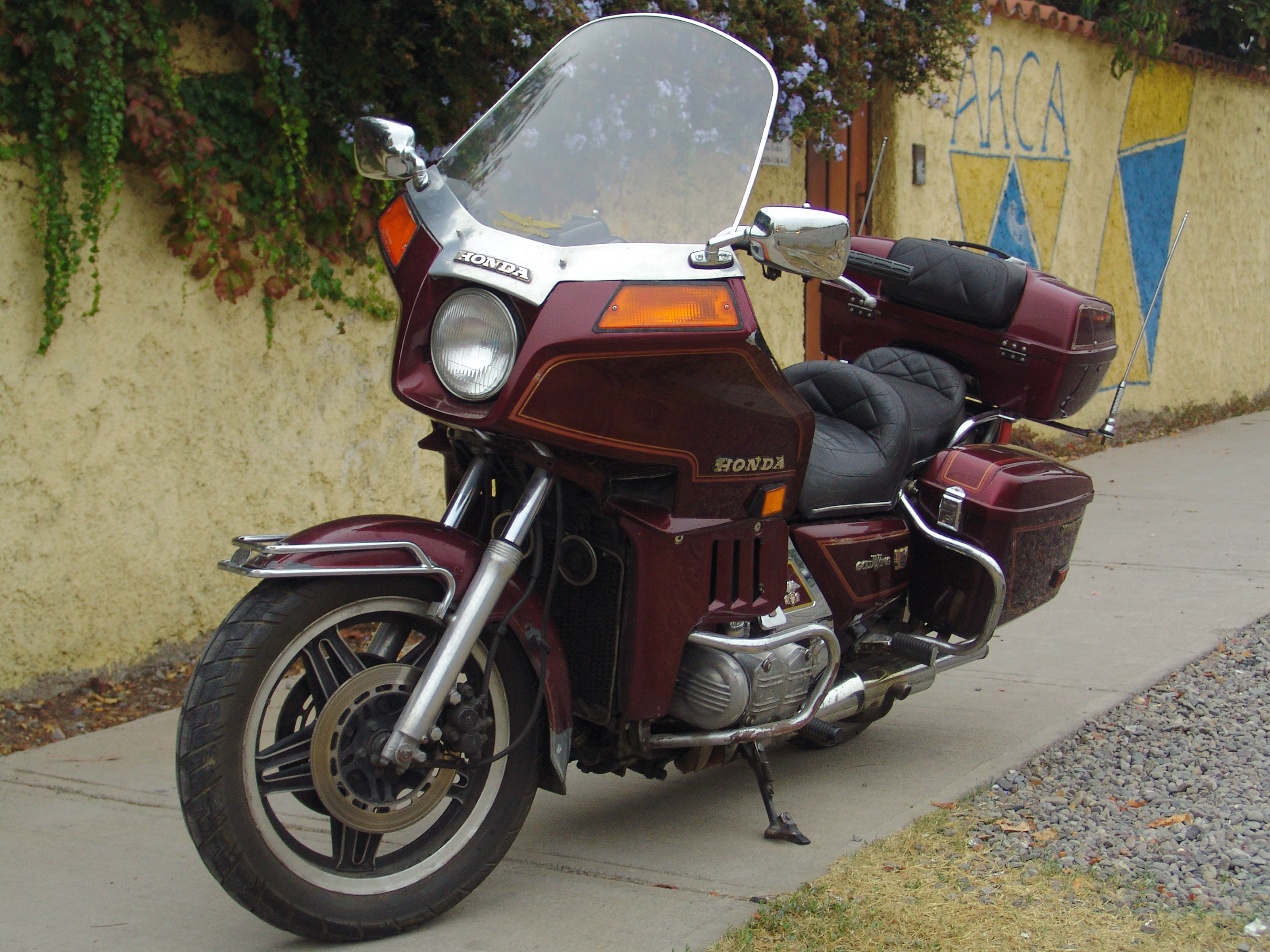 Honda Goldwing GL 1100 Interstate